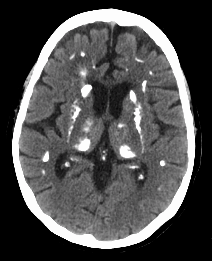 Calcification in the brain due to hyperparathyroidism (Phar's syndrome)